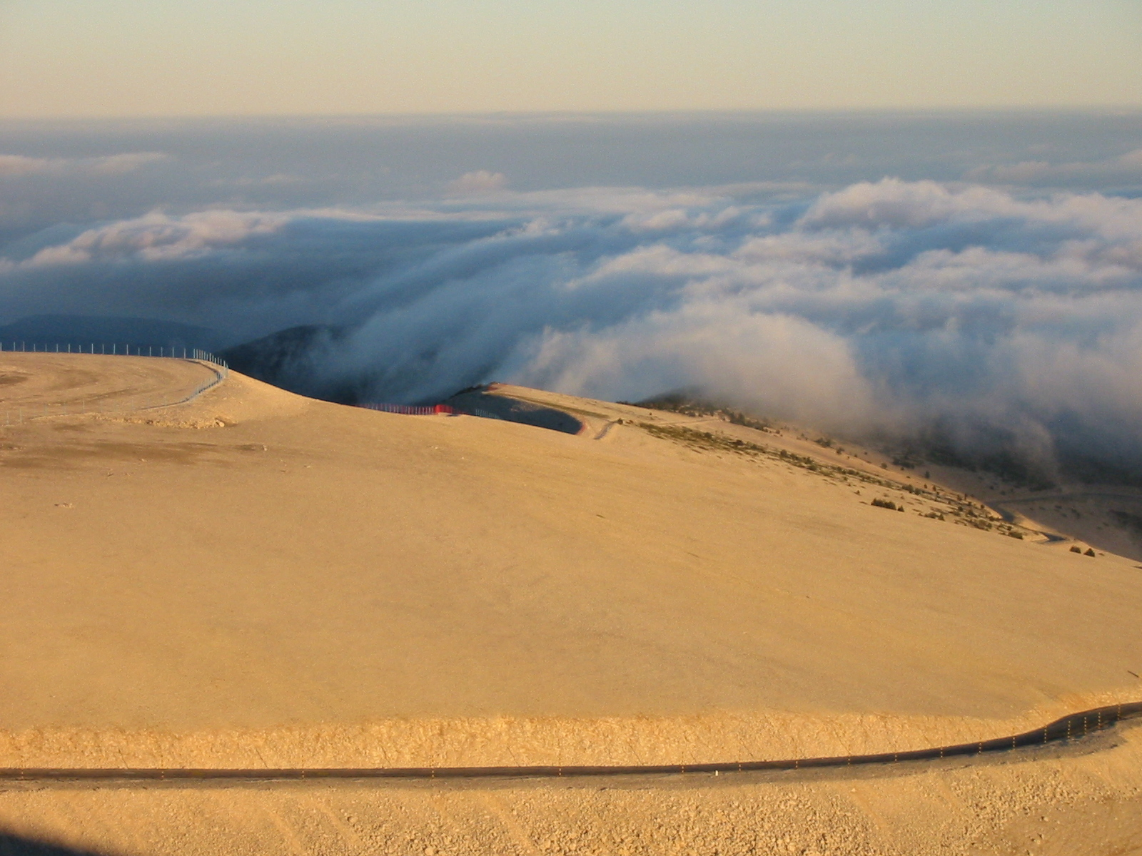 View from Mont Ventoux summit to the road down.